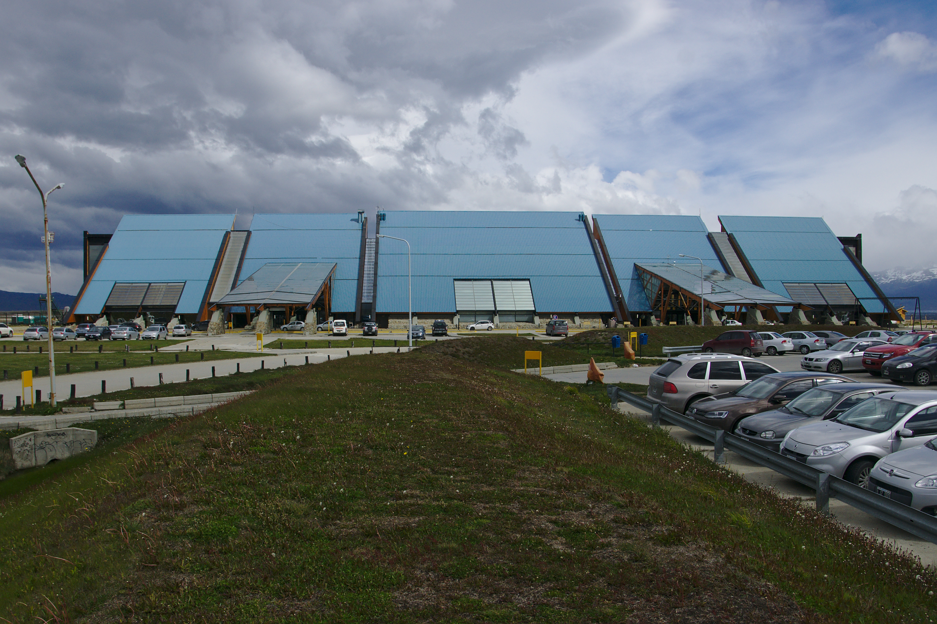 Ushuaia Airport terminal building